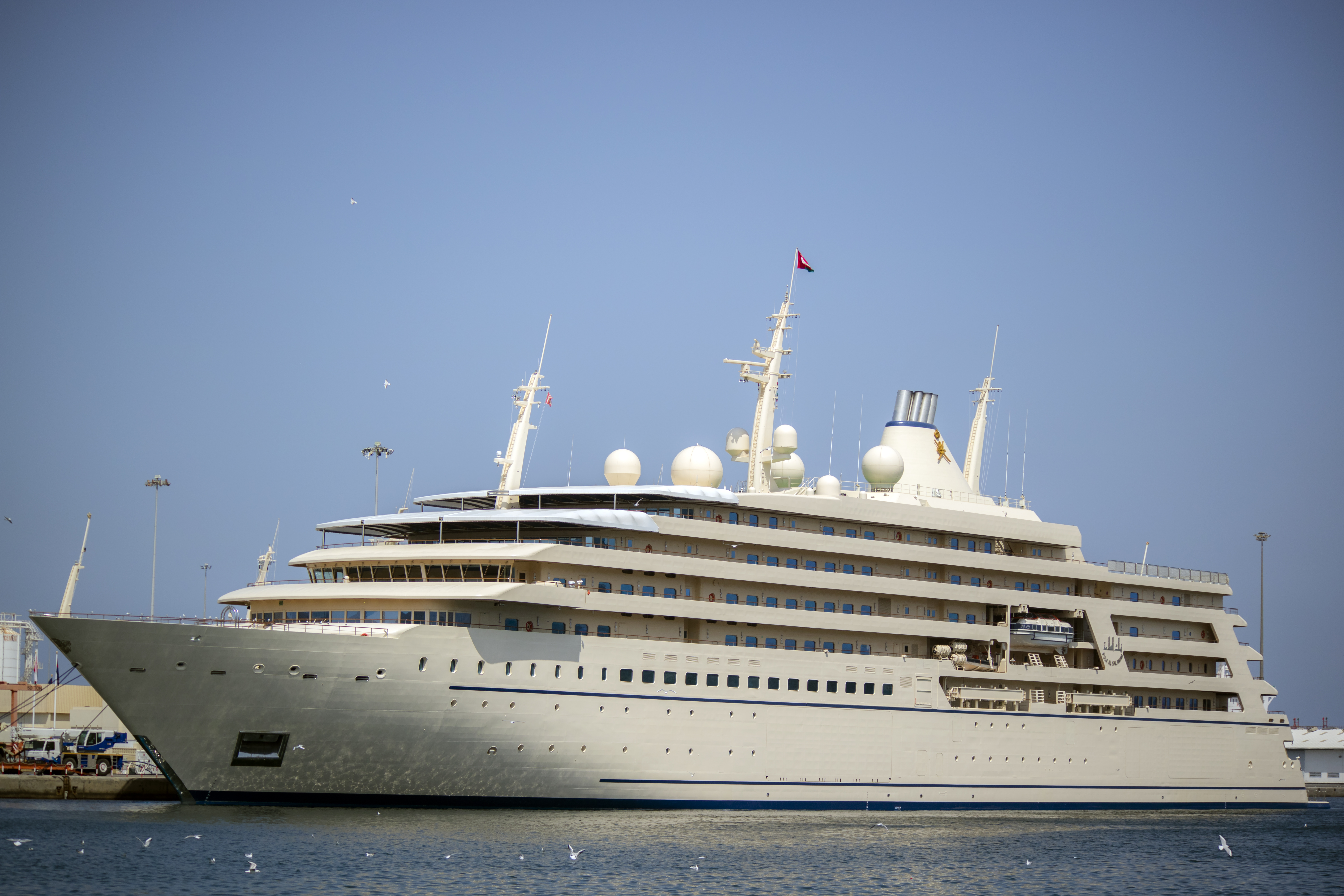 Muscat (Arabic: مسقط) is the capital and largest city of The Sultanate of Oman. It is the largest city in the mintaqah (governorate) of Muscat. The city of Muscat has a population of 650,000 (2005). The official language is Arabic.